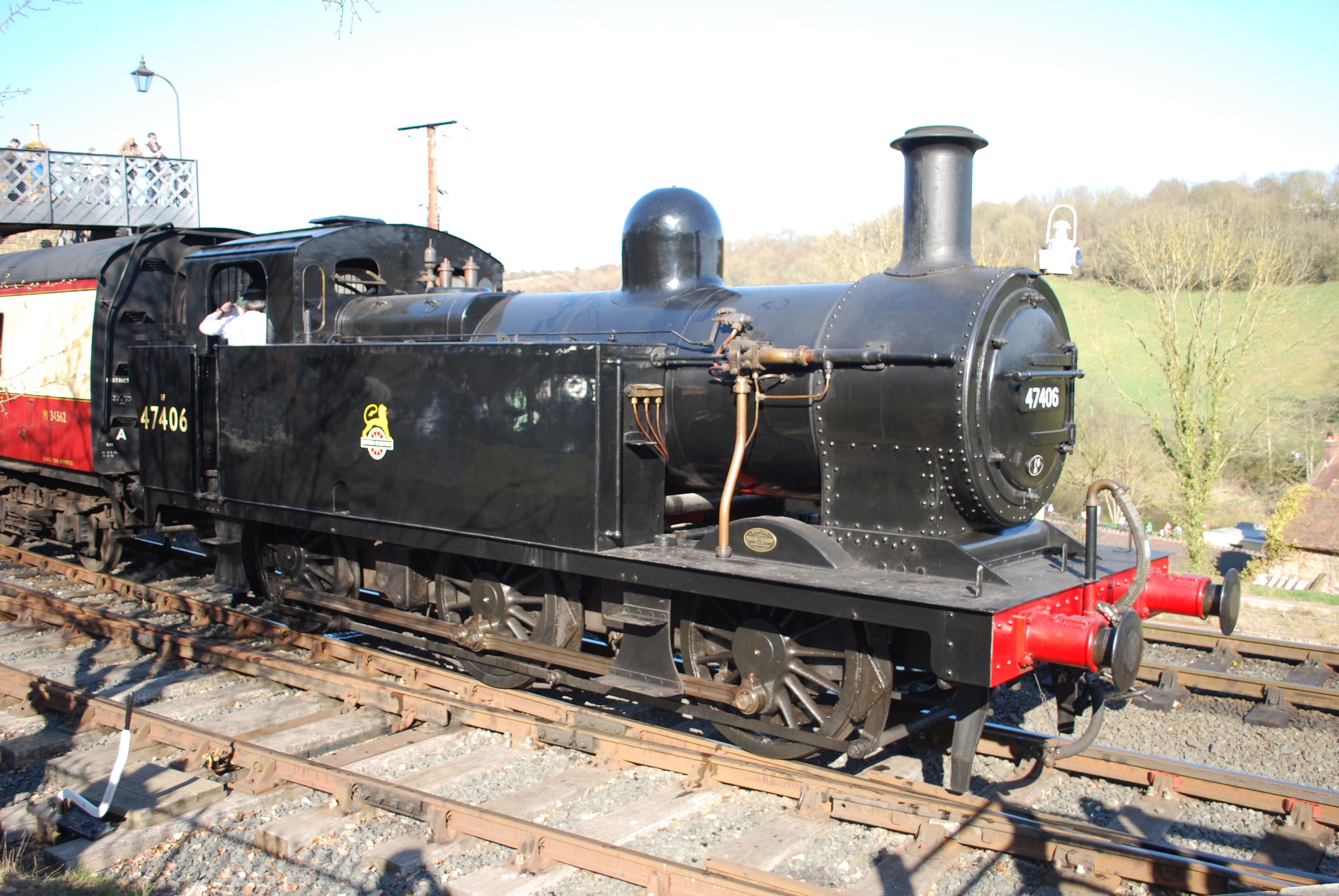 LMS Fowler Class "3F" 0-6-0T No.47406 (LMS No.7406, ex-No.16489) in BR unlined black with 1949 crest, awaiting departure at Highley for Kidderminster, on the Severn Valley Railway, 03/12.